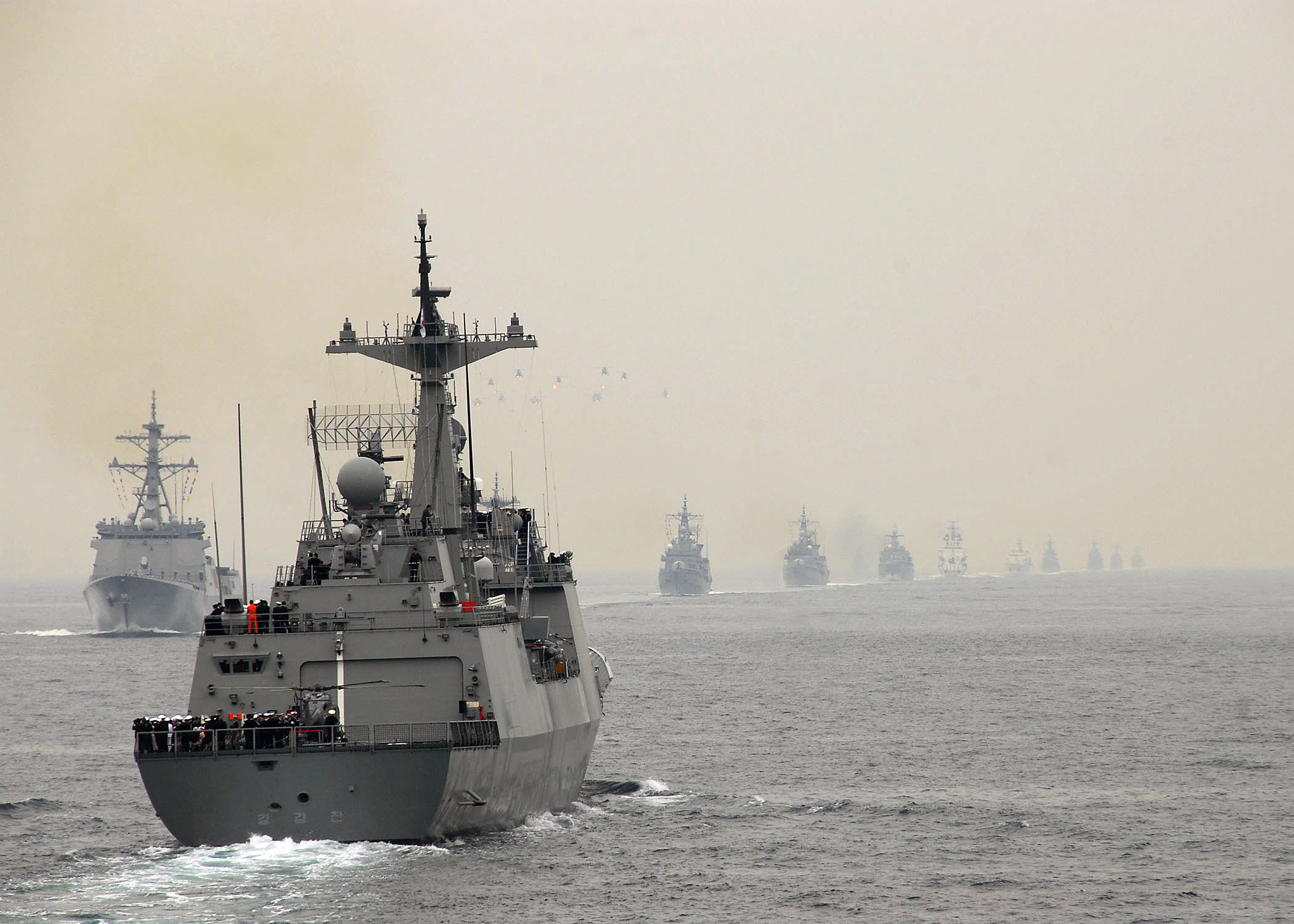 081007-N-9573A-006 PUSAN, Republic of Korea (Oct. 7, 2008) The ROKS Gangkamchan (DDH 979) steams by a line of Repulic of Korea Navy (ROKN) ships during the International Fleet Review "Pass and Review." The Gangkamchan carried the President of the Republic of Korea and other distinguished visitors. Twenty-one ships from 11 navies also participated in the Pass and Review. The International Fleet Review, which runs from Oct. 5-10 , celebrates the 60th anniversary of the Korean government and its armed forces. (U.S. Navy photo by Mass Communication 1st Class Bobbie G. Attaway/Released)